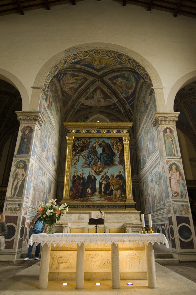 see above